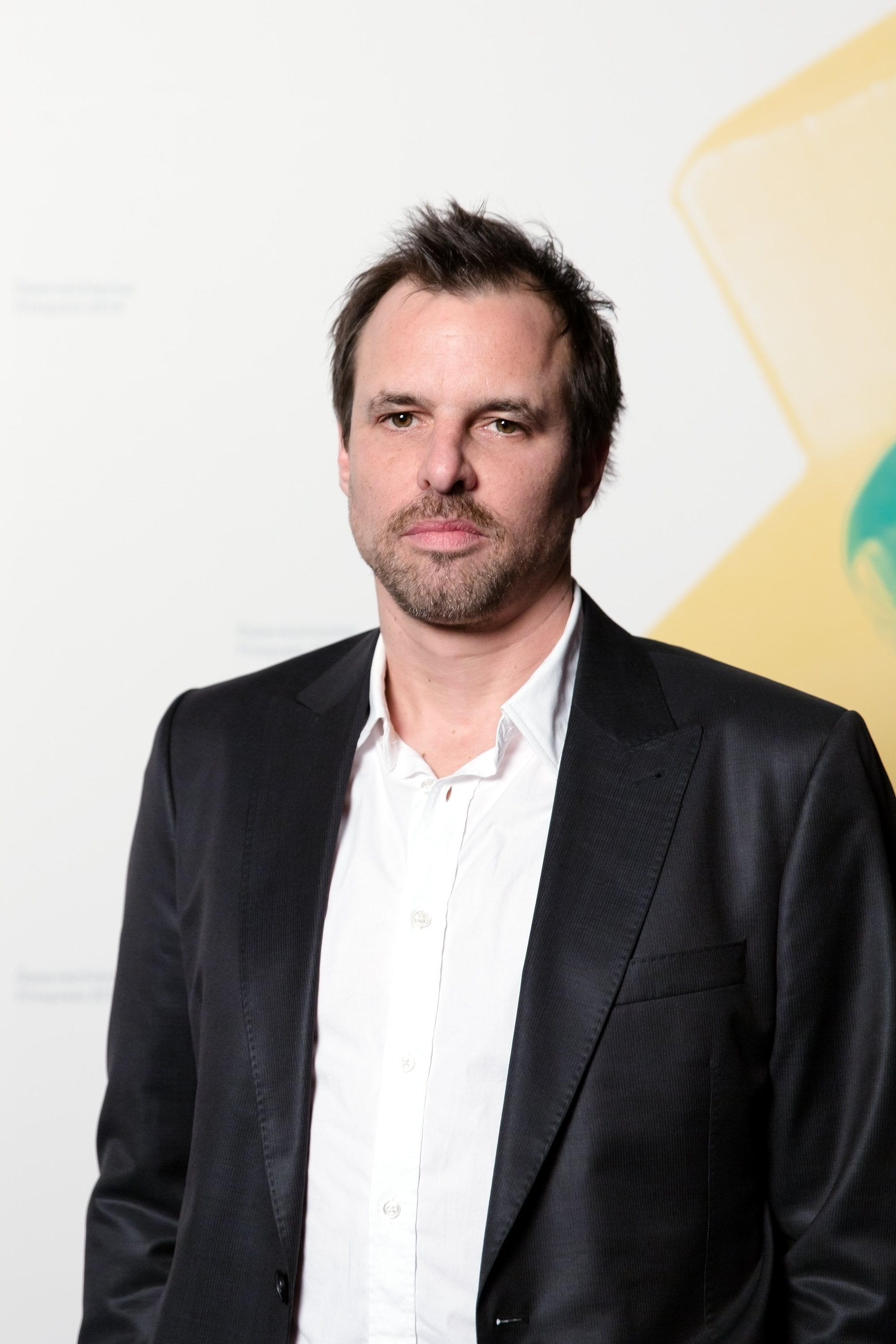 Markus Kienzl at the Austrian Film Awards 2016 (Grafenegg, Austria).